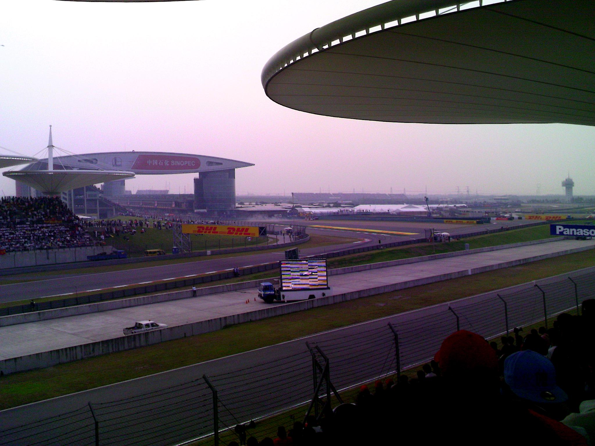 2008 Chinese Grand Prix